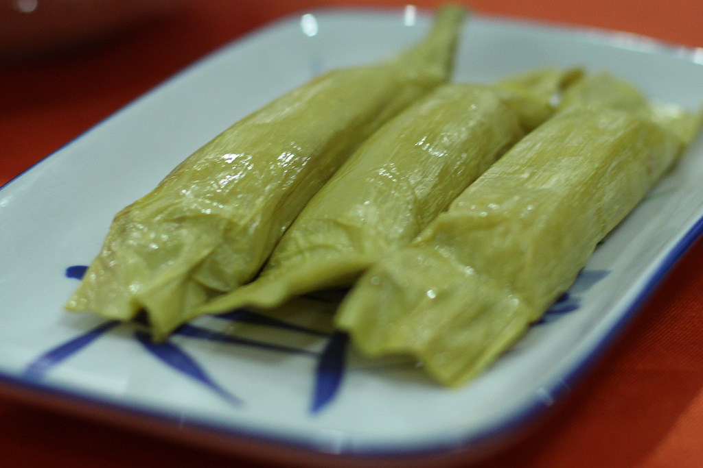 Timphan Asoekaya